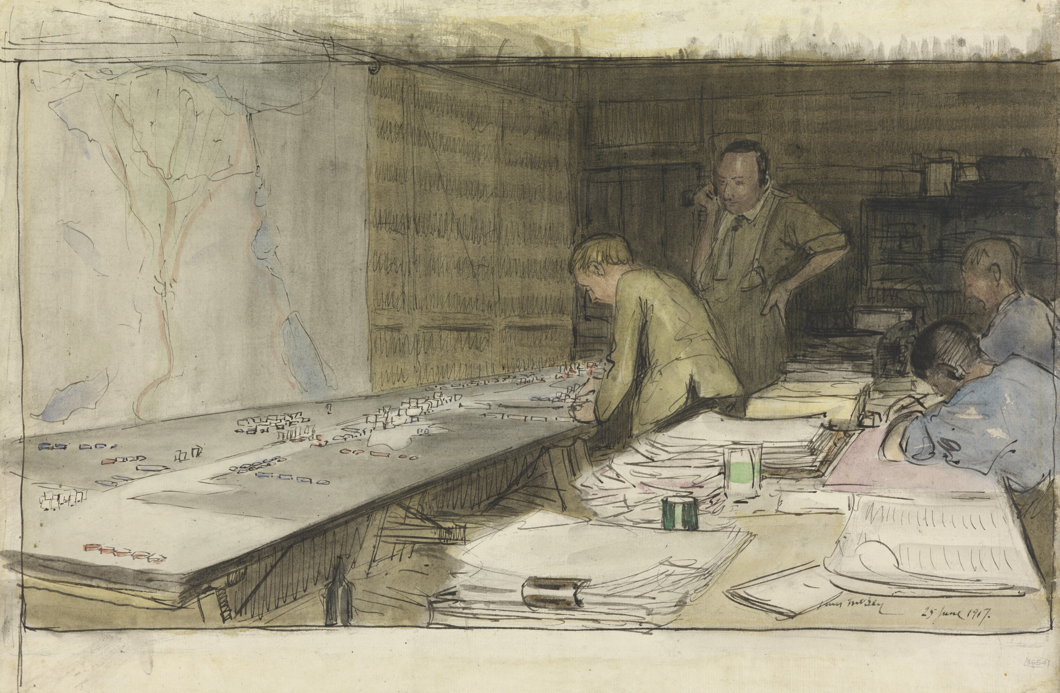 The Office of the Inland Water Transport image: an interior view of a busy office with two long tables running from the foreground towards the right background. On the table to the right, two men are at work writing, surrounded by piles of paperwork. On the surface of the other table is a scale model of Egyptian waterways, with two men standing beside it and plotting the location of ships and supplies. There is a large map of the Nile Delta mounted on the wall to the left.